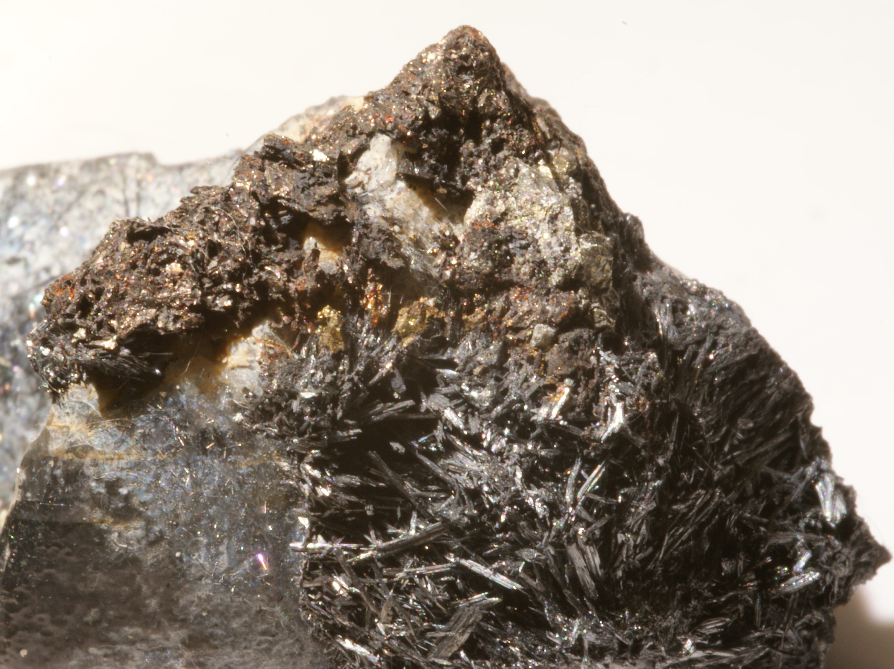 Dufrénoysite - Batopilas, Andres del Rio District, Mun. de Batopilas, Chihuahua, Mexico